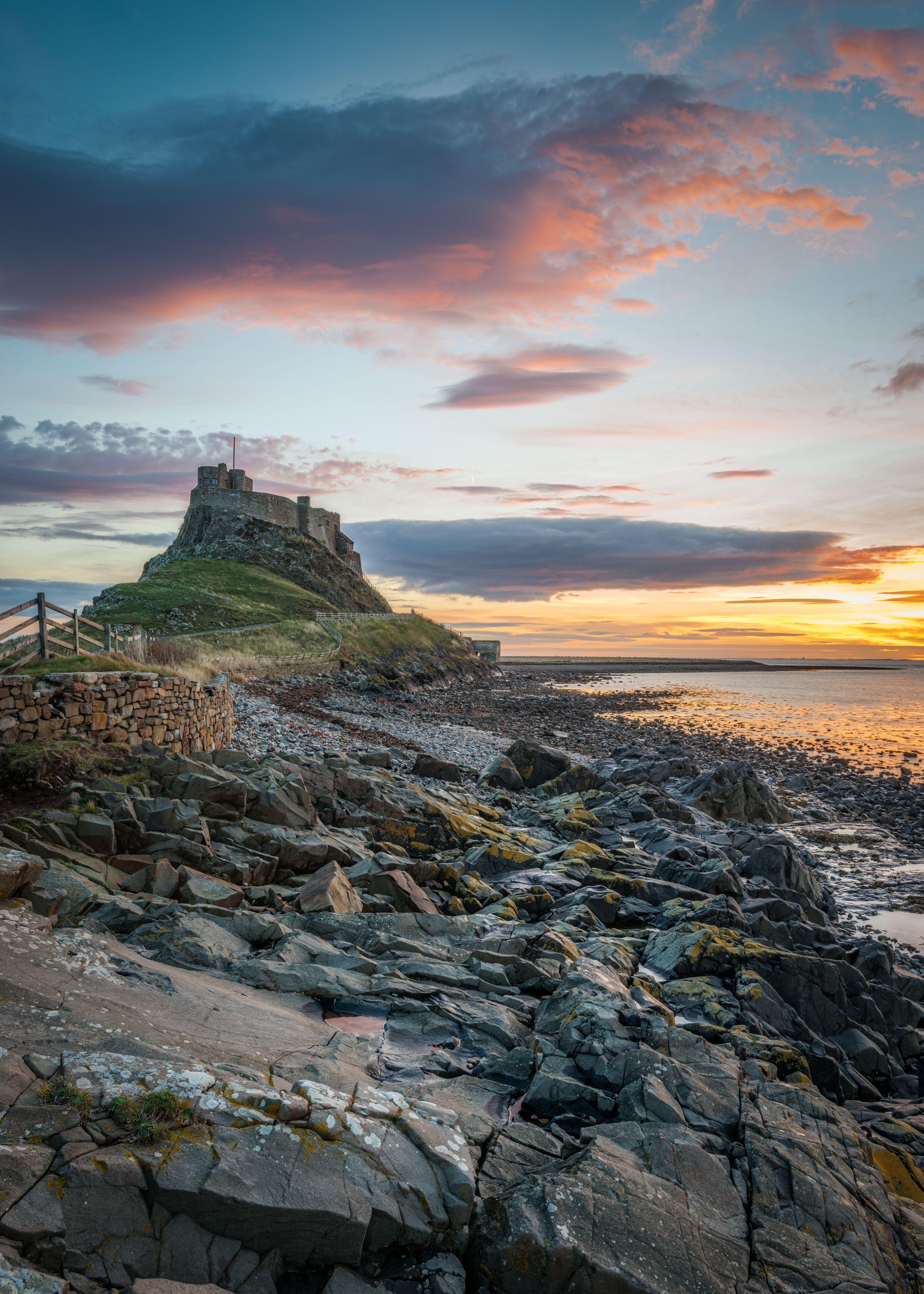 Another shot from the castle showing that colourful sunrise; this time in portrait aspect.